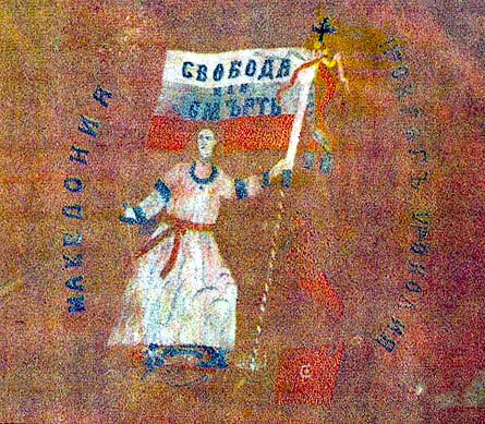 Flag of the Bulgarian rebels in the Ilinden-Preobrazhenie Uprising. Since 1946 the flag has been kept in the National Museum of Military History in Bulgaria. Flag of the insurgents from Ohrid /79/ Made from double red silk fabric with dimensions 94x78 cm. Face side shows upright crowned lion stepping upon a crescent. Around him it is written [In Bulgarian]: "God is with us. Forward, brothers! The victory is ours. Ohrid, 1903." Left and Right of the lion shown are lyrics from Hristo Botev. On the back side of the fabric the is a figure of dark haired young woman holding a sword in her right hand and the tri-color with a slogan "Freedom or Death". Next to her: lion standing on the enemy's flag. The woman is stepping on broken slave chains and battle axes. On the side there is the sign: "Macedonia, 2nd region, area 6". The flag was made by Ohrid teachers Polyxena Mosinova, Vasilka Razmova, Klia Samadzhieva and Kostadina Bojadvieva /80/. It is blessed by father Vasil Popangelov, organizer of the uprising in Dolna Deburca, in front of 600 insurgents and peasants on 23 July 1903 in Visloec, Ohrid region. There are insurgents present from Kuratitza, Brezhani, Plake and Oleinitza. The ritual is concluded when insurgents go under the flag hats down and kiss it. In the end of the ceremony Hristo Uzunov and Anton Keckarov hold speeches. The flag is given to Uzunov and he leads his squad in the Ohrid, Debar and Struga regions. Since 1946 the flag is kept in the Musem of Military History in Sofia